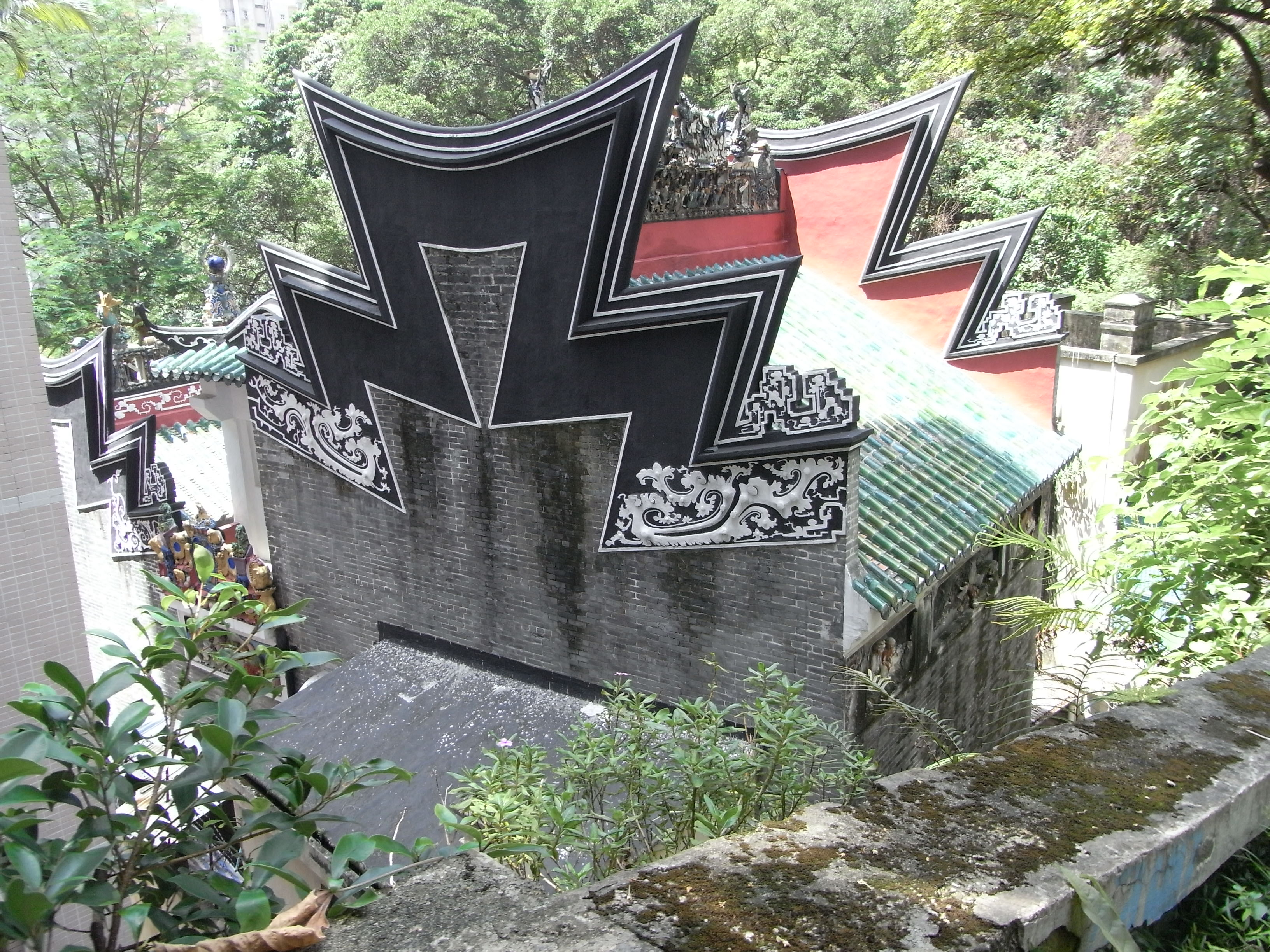 堅尼地城青蓮臺 魯班先師廟